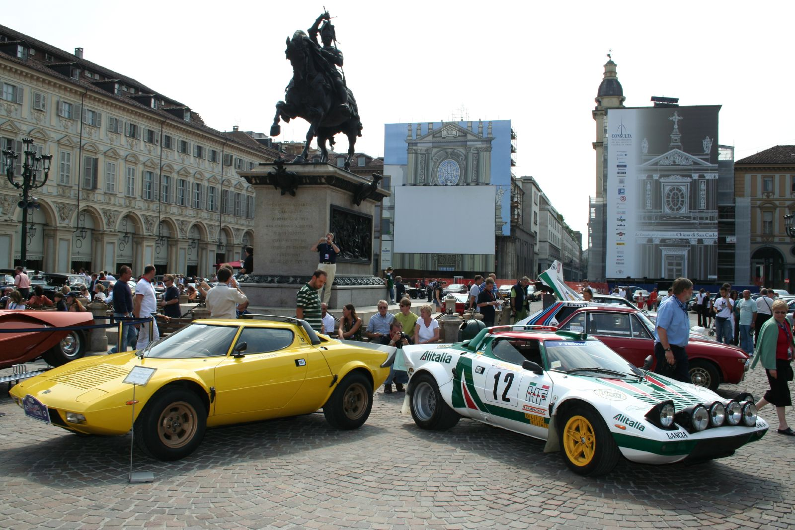 Lancia Stratos HFs at the Lancia centenary celebrations in Turin in 2006.